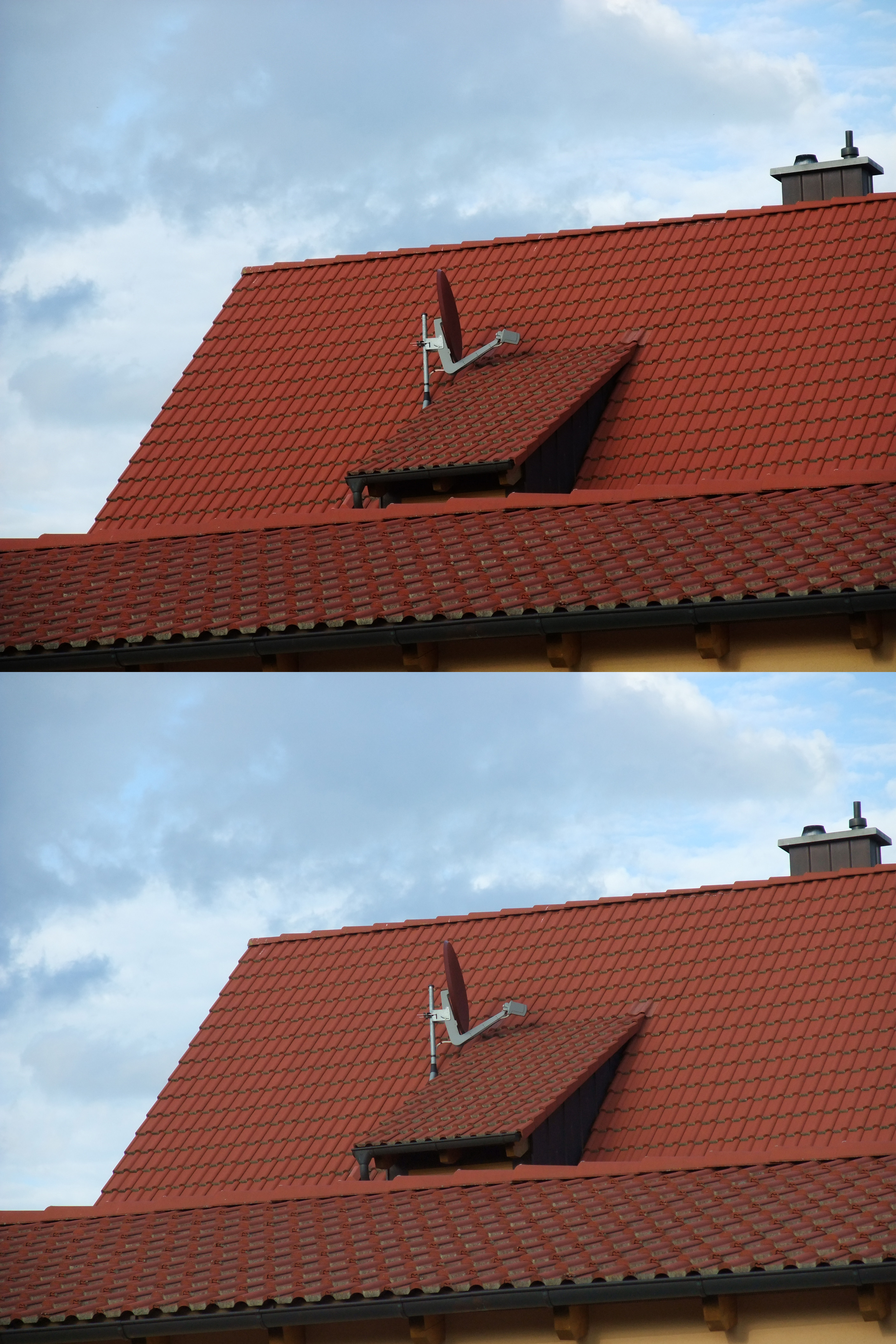 Fujifilm FinePix EXR Sensor (up: with EXR, down: without EXR)